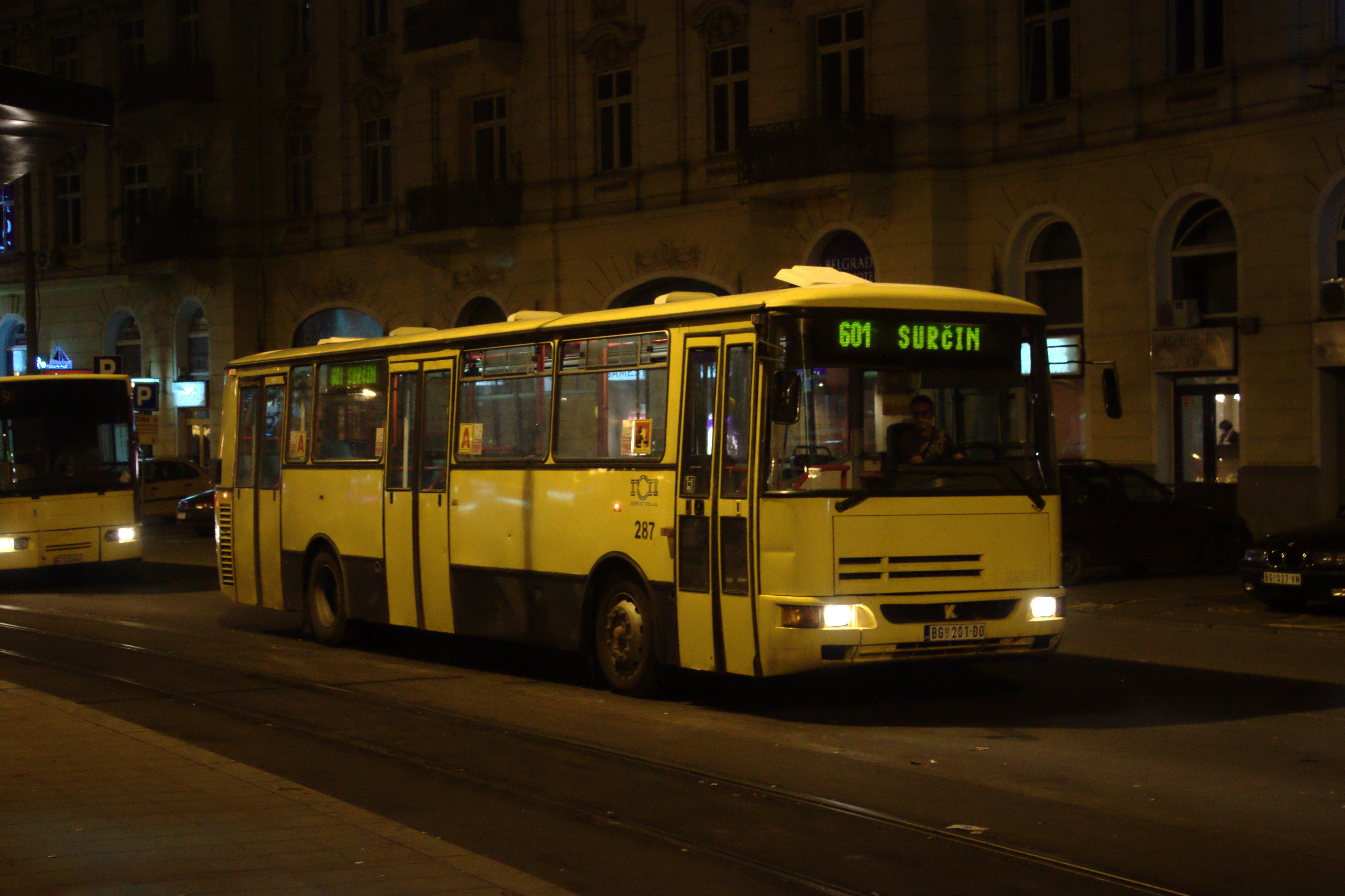 Karosa B 932 in Belgrade close to the local train station, Serbia